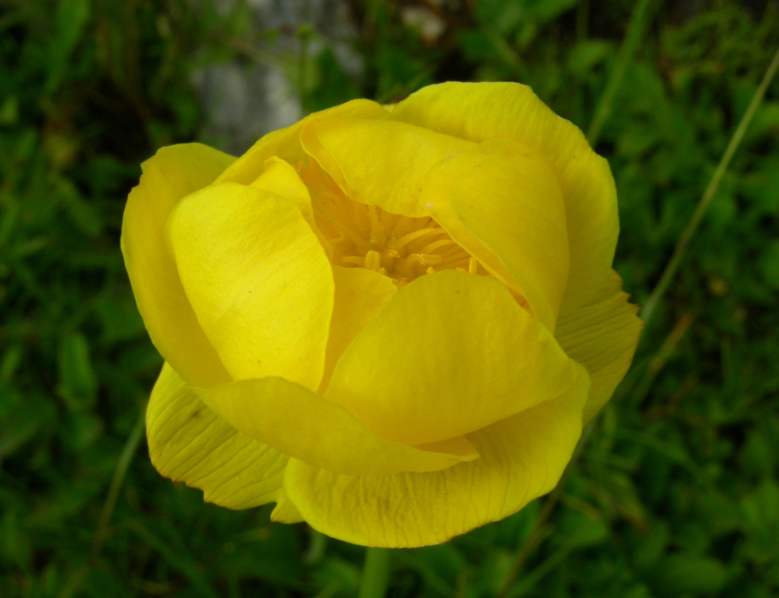 Trollius europaeus (globe-flower) in Krvavec (1700 m)